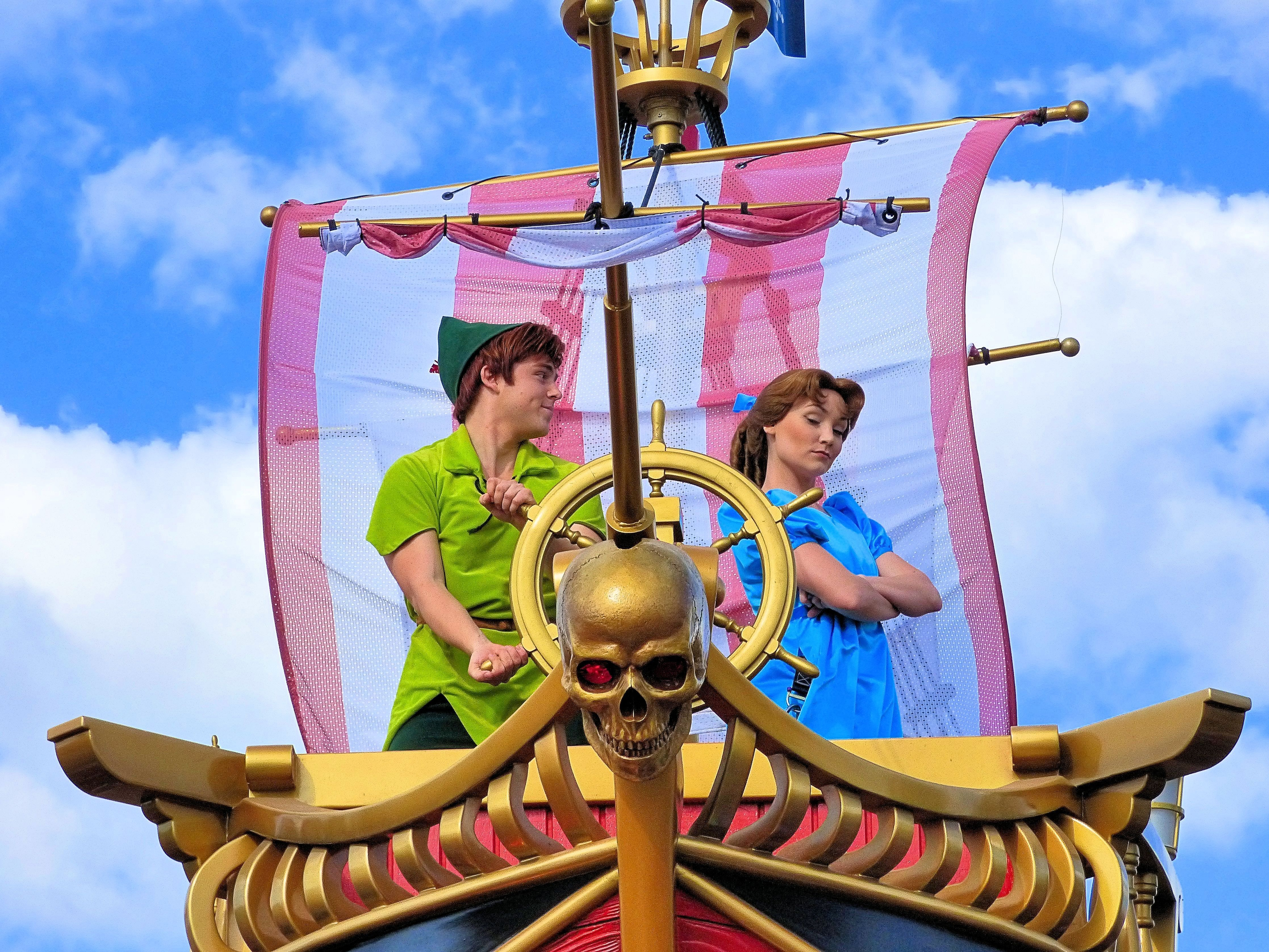 Peter Pan unit at the Festival of Fantasy Parade in Magic Kingdom